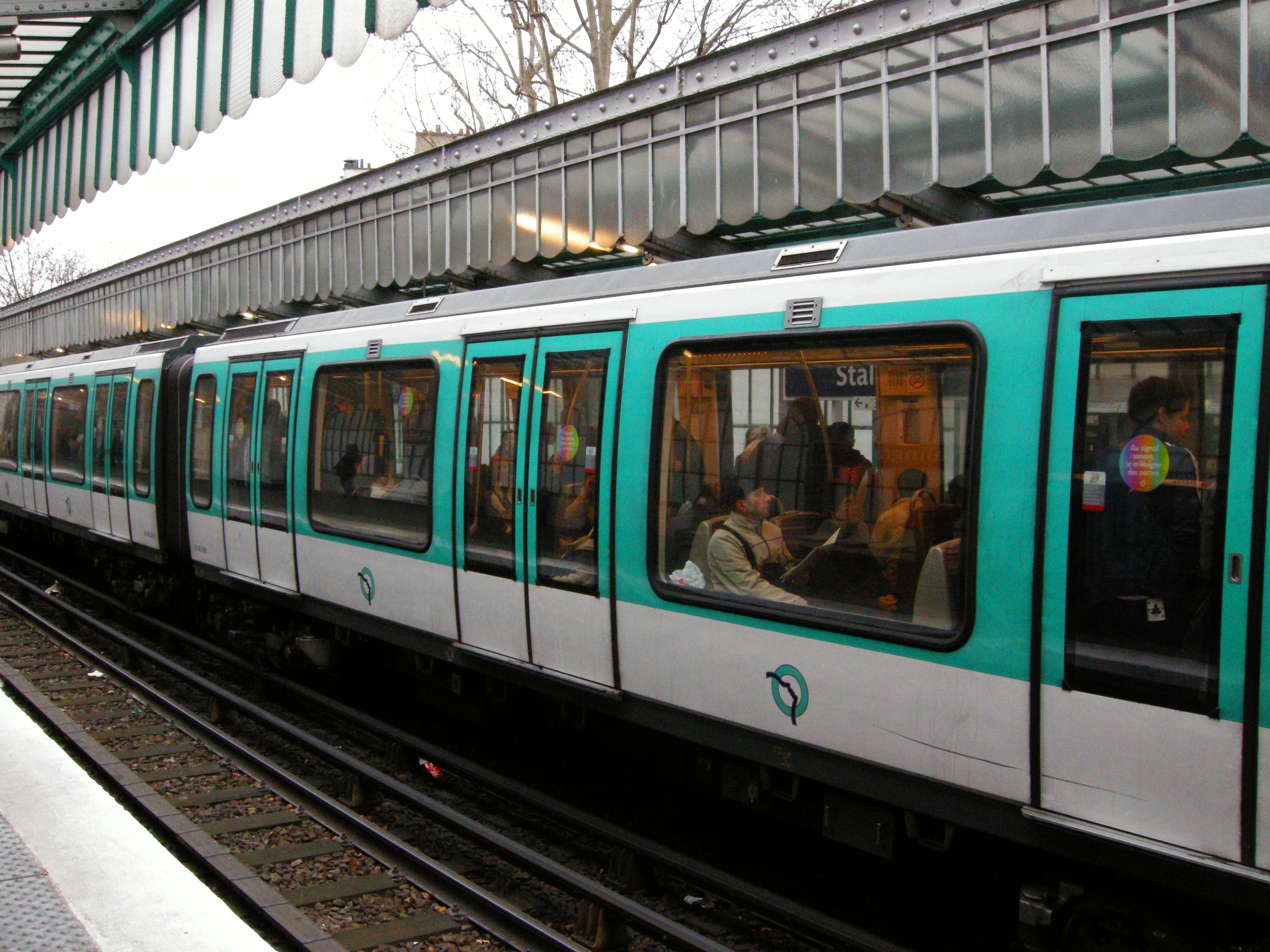 A MF 01 train stopped at the metro station of Stalingrad